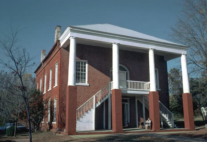 Banks County Courthouse (Homer, Georgia). This image or file is a work of a United States Department of Agriculture employee, taken or made during the course of an employee's official duties. As a work of the U.S. federal government, the image is in the public domain. Object location 34° 20′ 5.0″ N, 83° 29′ 56.0″ W This and other images at their locations on: Google Maps - Google Earth - OpenStreetMap - Proximityrama(Info)